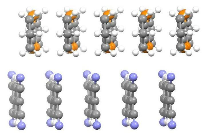 Edge-on view of portion of crystal structure of (trimethylene)2TTF+TCNQ- CT salt